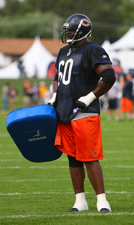 I took this picture of Terrence Metcalf on July 27, 2007 at the Chicago Bears 2007 Training Camp.